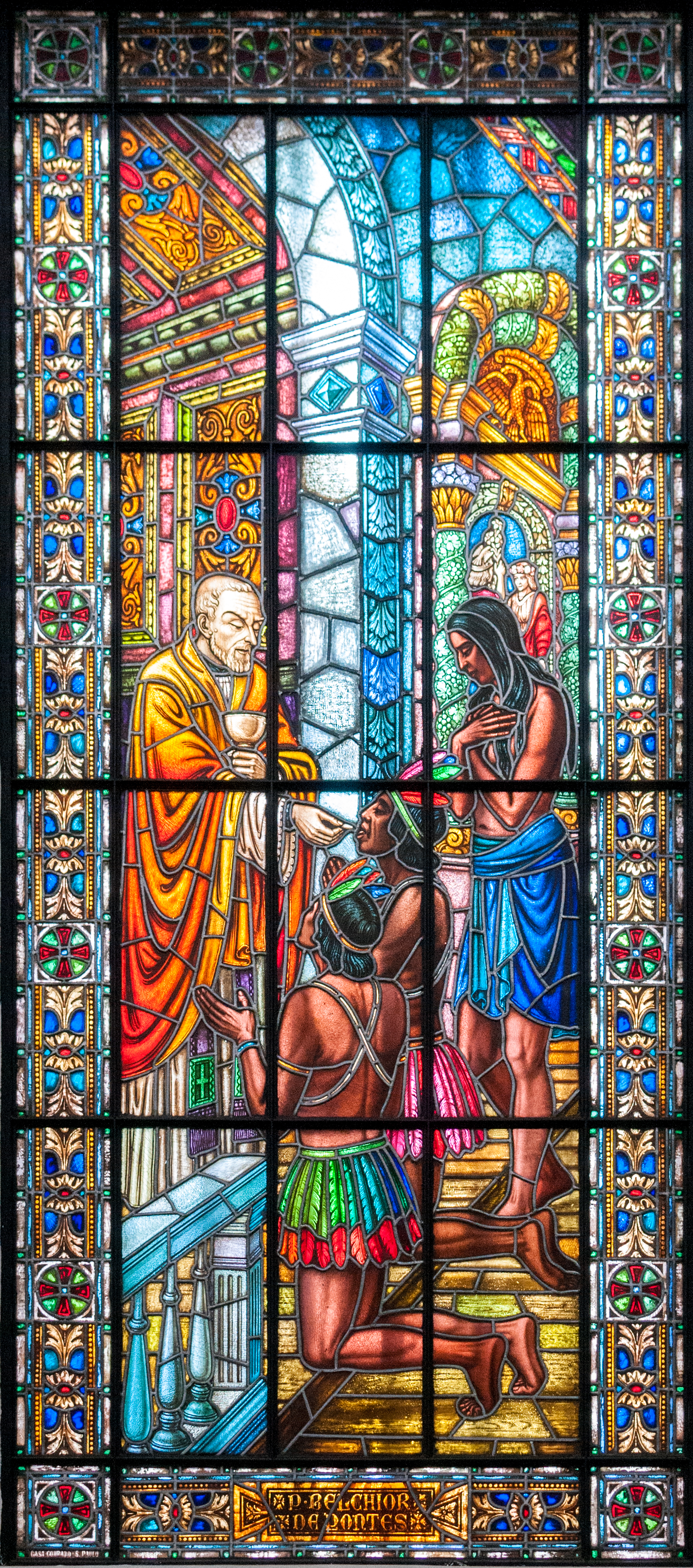 Belchior de Pontes - Stained glass in Church of Paróquia São Luiz Gonzaga, Avenida Paulista, São Paulo, Brazil